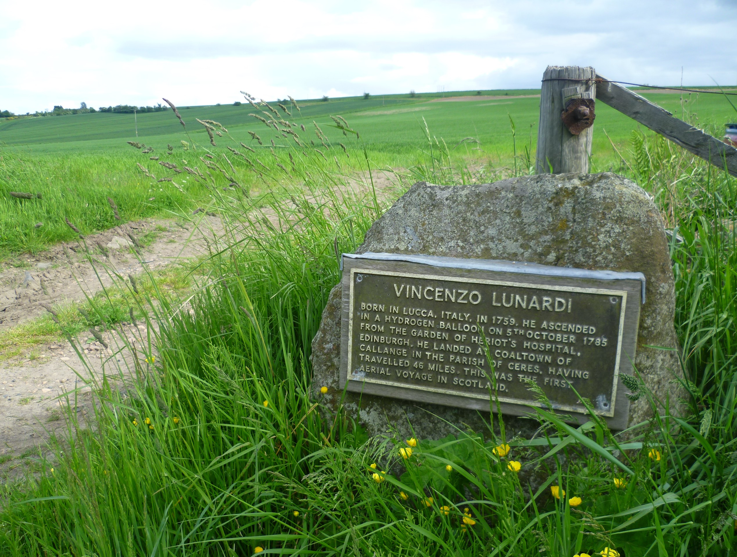 Plaque at the entrance to the field in which Lunardi landed after his first balloon flight in Scotland in 1785